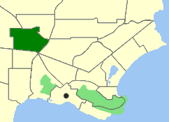 Map of the suburb of Orana in Albany, Western Australia.